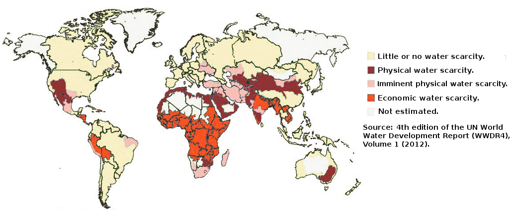 The fourth edition of the World Water Development Report (WWDR4), ‘Managing Water under Uncertainty and Risk’ is a comprehensive review of the world's freshwater resources and seeks to demonstrate, among other messages, that water underpins all aspects of development, and that a coordinated approach to managing and allocating water is critical. The Report underlines that in order to meet multiple goals water needs to be an intrinsic element in decision-making across the whole development spectrum. It was launched at the 6th World Water Forum in Marseille by Irina Bokova, UNESCO Director General, and Michel Jarraud, UN-Water Chair.